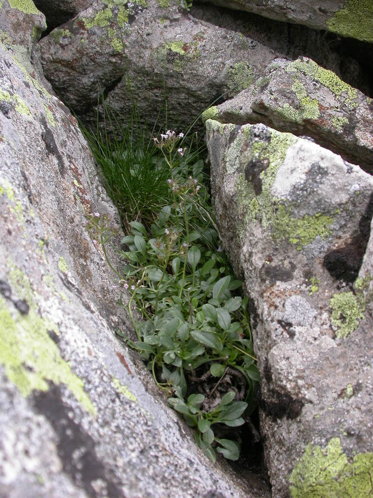 Valeriana apula